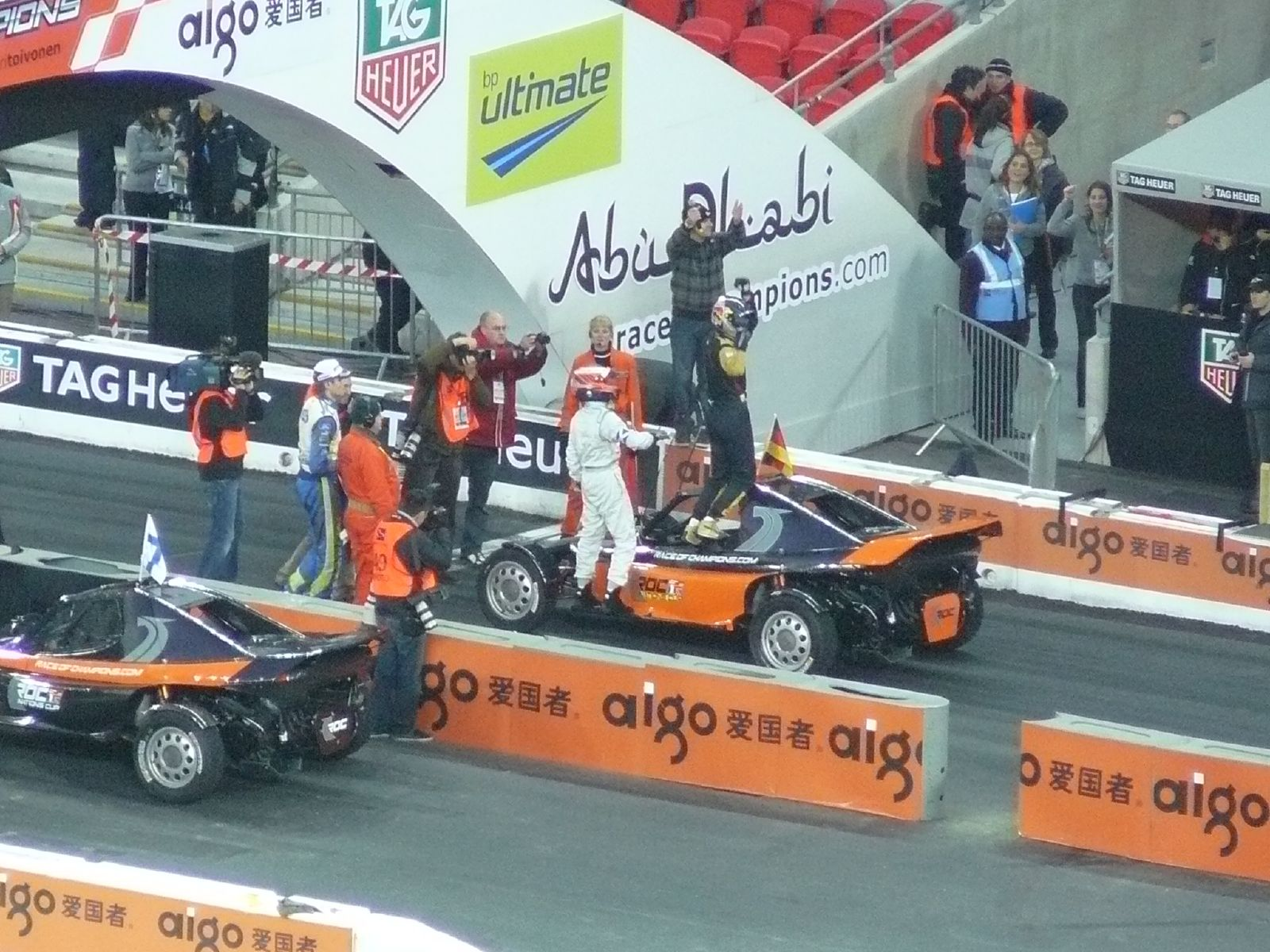 Heikki Kovalainen congratulates Sebastian Vettel after Germany beat Finland in the Nations' Cup finals at the 2007 Race of Champions at Wembley Stadium.